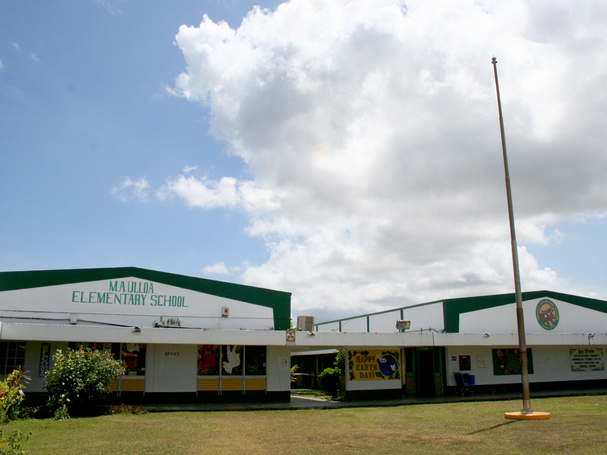 Maria Arceo Ulloa Elementary School was established in 1965 as the Dededo Elementary School before for it was rededicated in 1968. Sheila Tyquiengco/Guampedia